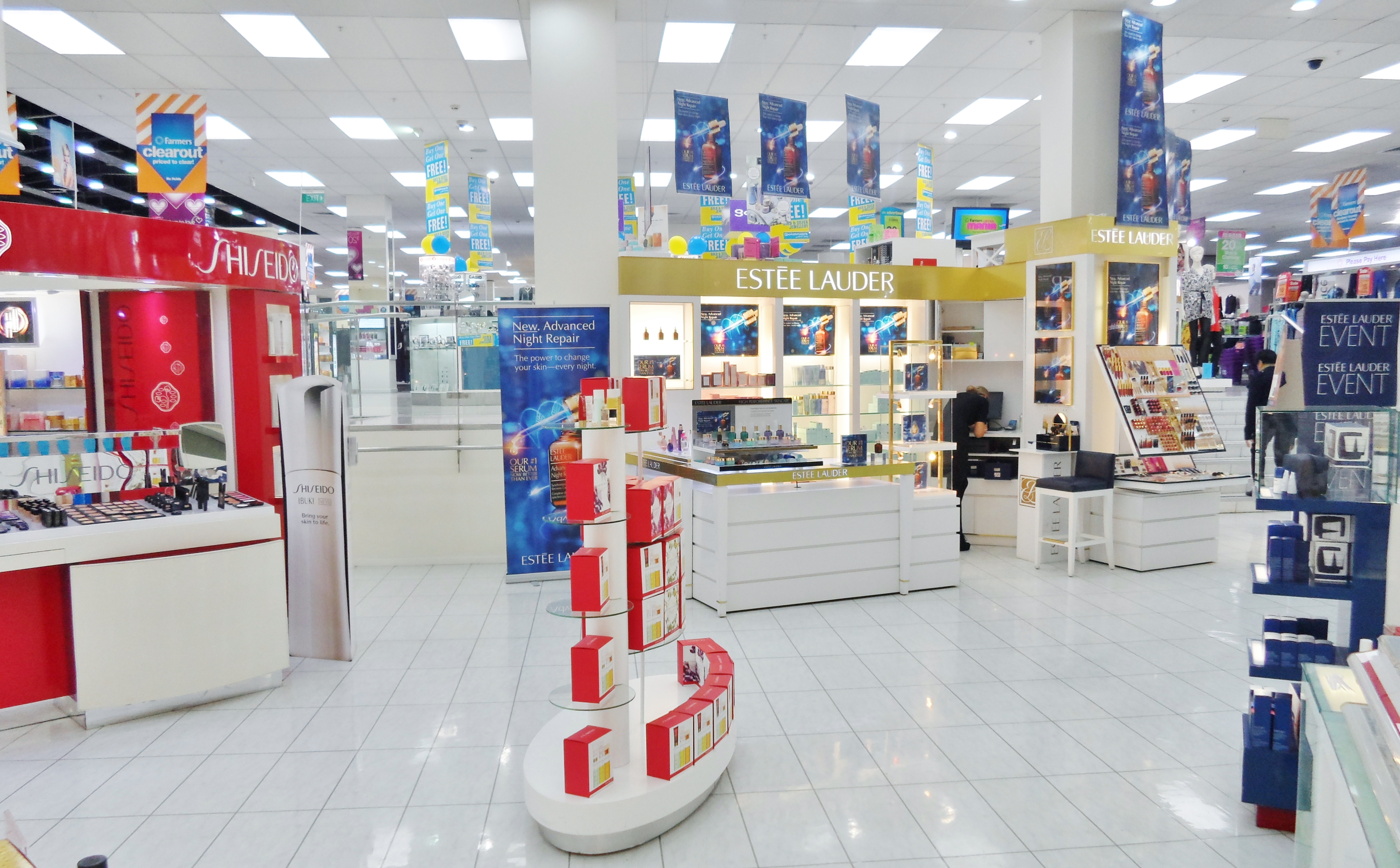 Small old-style (circa 2009) Estée Lauder counter at New Zealand department store Farmers in Dunedin in 2013.